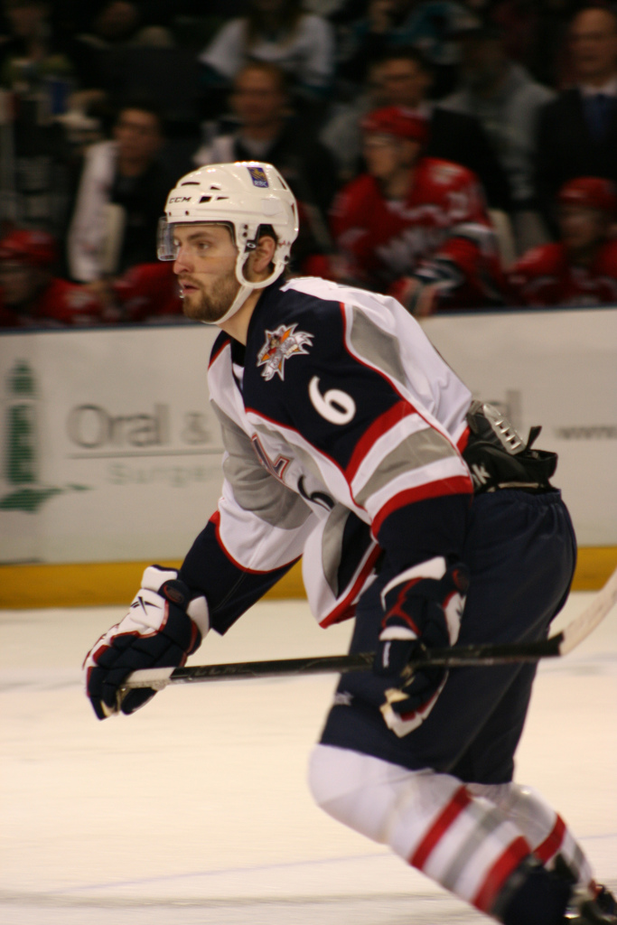 Mike Weber with the puck in the AHl all-star game